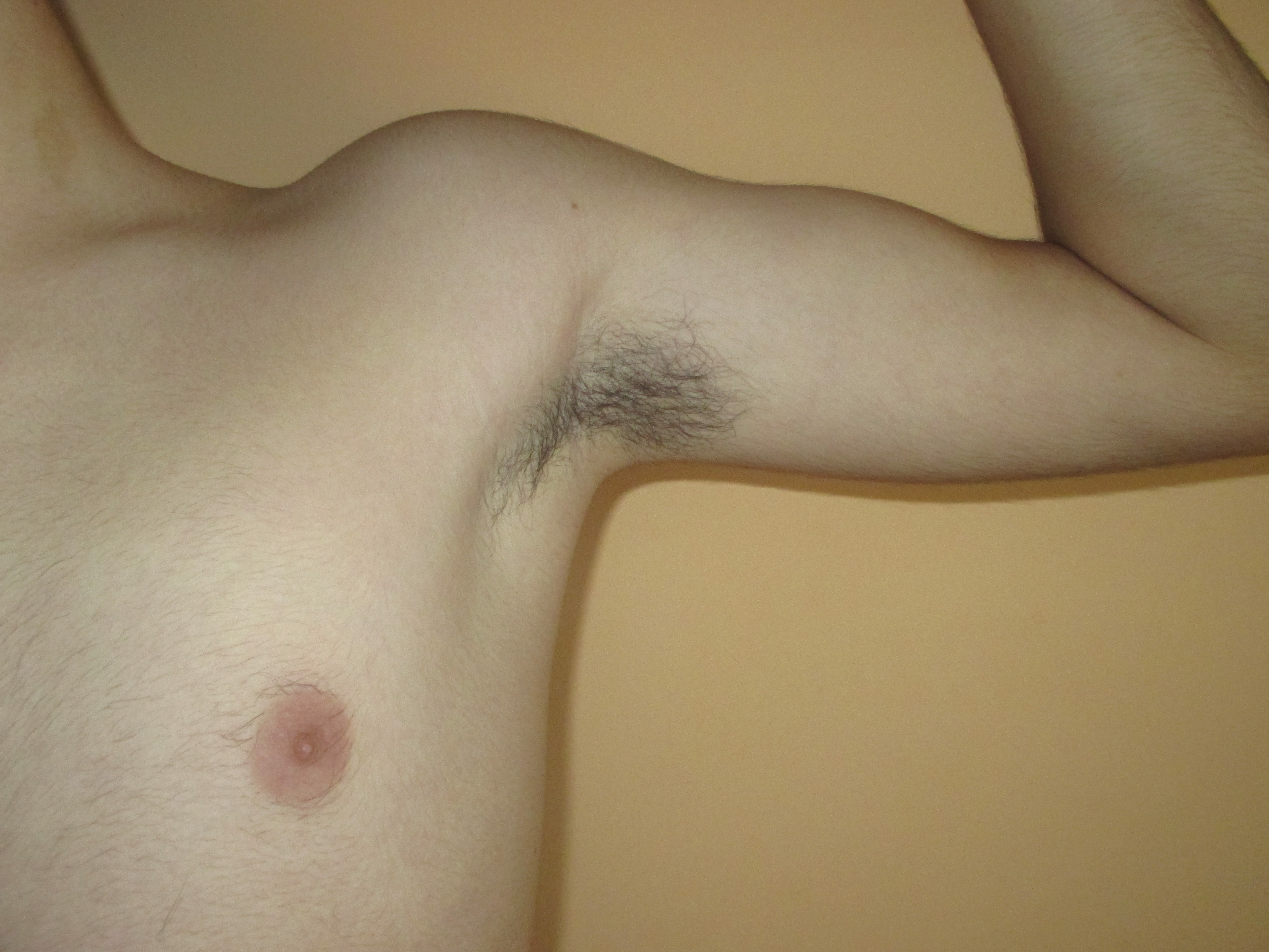 armpit hair